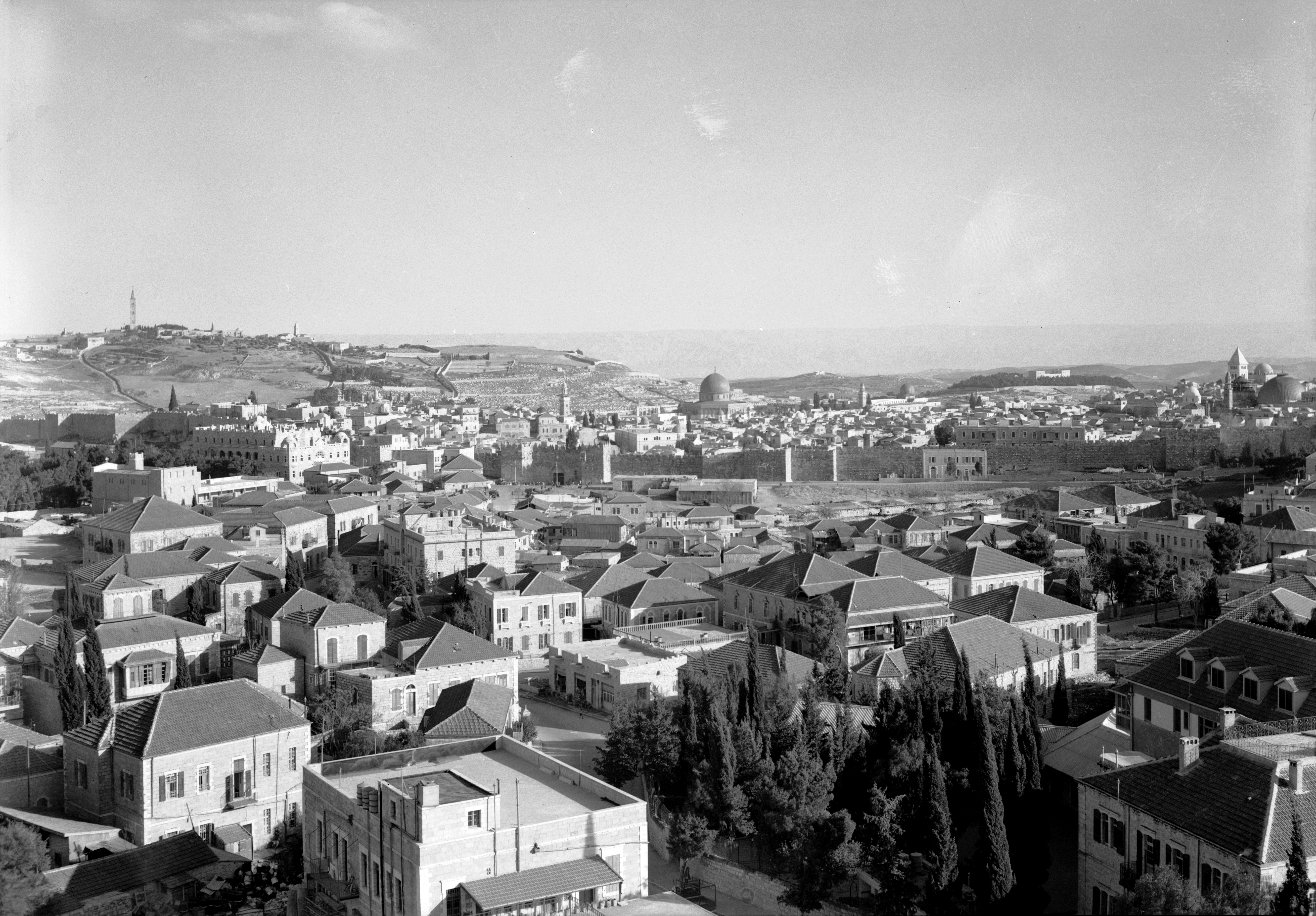 Jerusalem & Olivet from tower of Italian Hospital showing nort[h] city wall & Damascus Gate